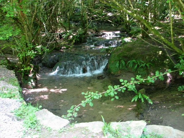 Confluence on the Slade Brook This is very near the source of the Slade Brook which is piped at this spot for a track which runs(left)up to Bearse Common. The image also shows the brook flowing over some of the Tufa Dams which are numerous in this valley; formed due to the high calcium carbonate mineral content of the water emerging from springs in the local limestone.